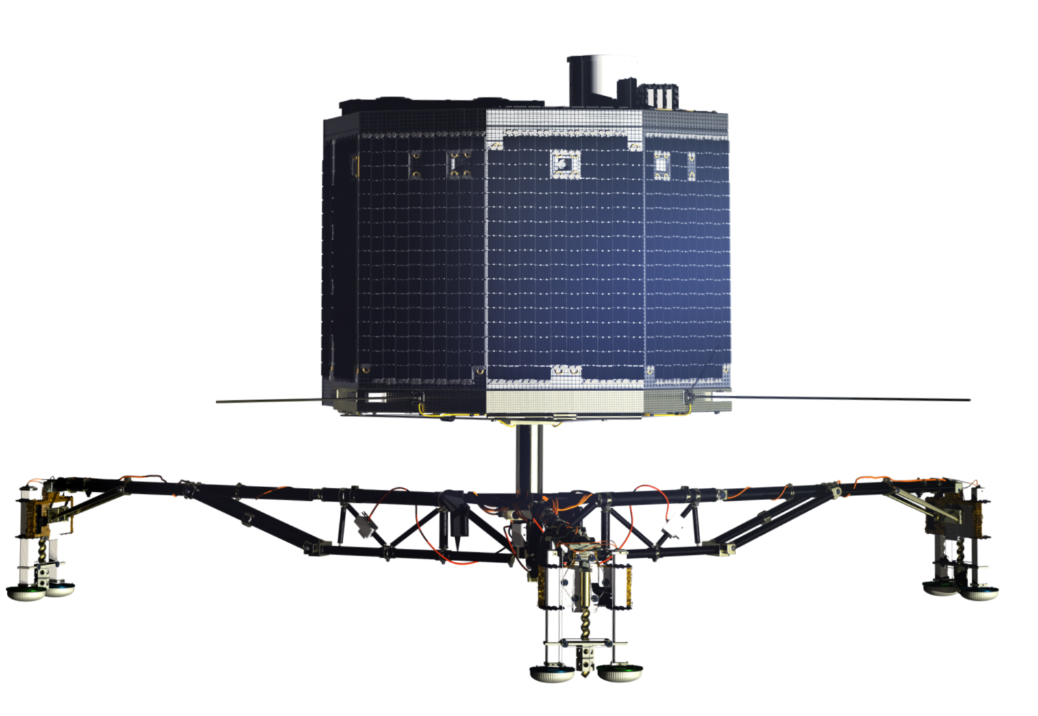 Artist's impression of the Philae lander, on a transparent background.